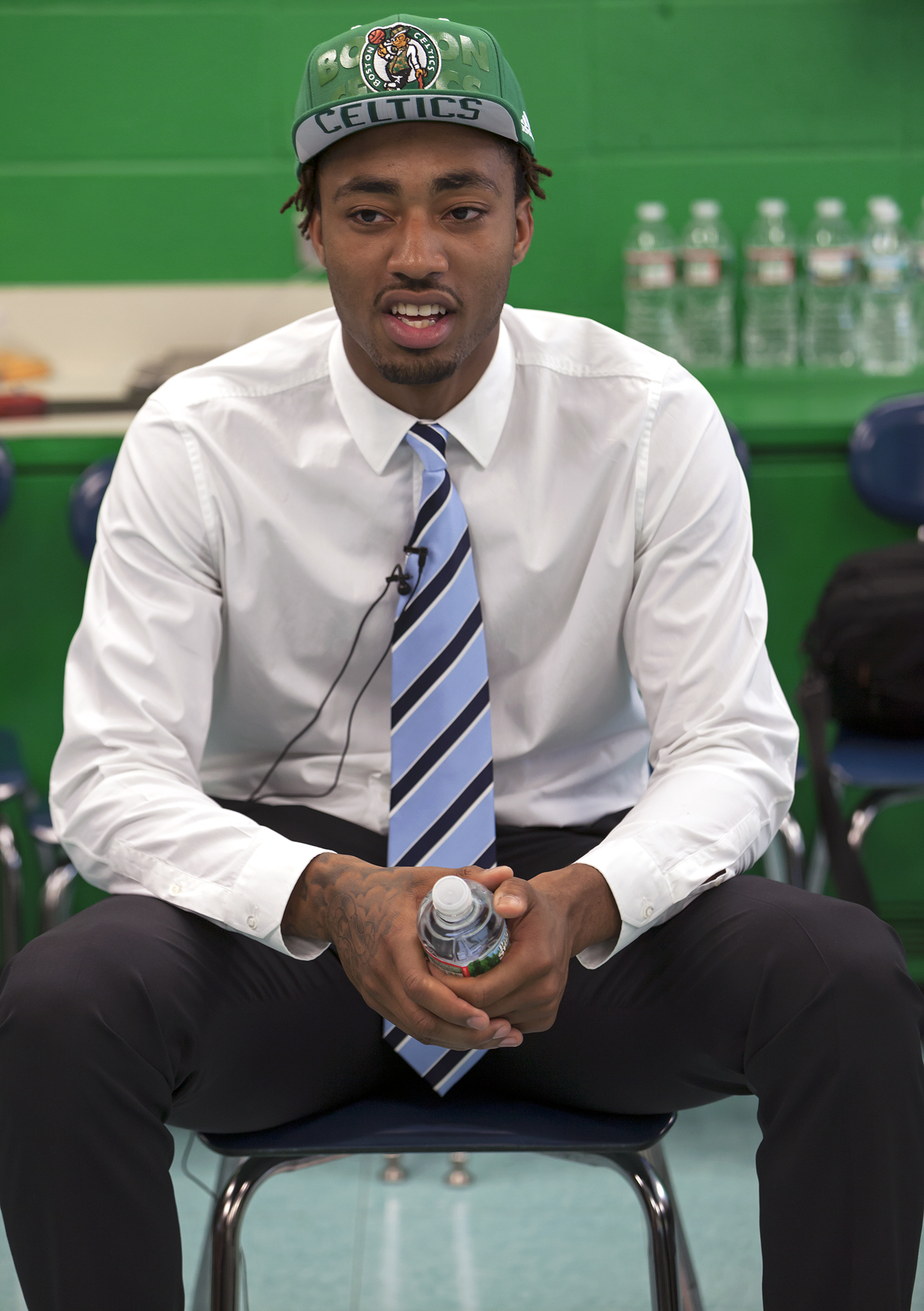 Basketball player